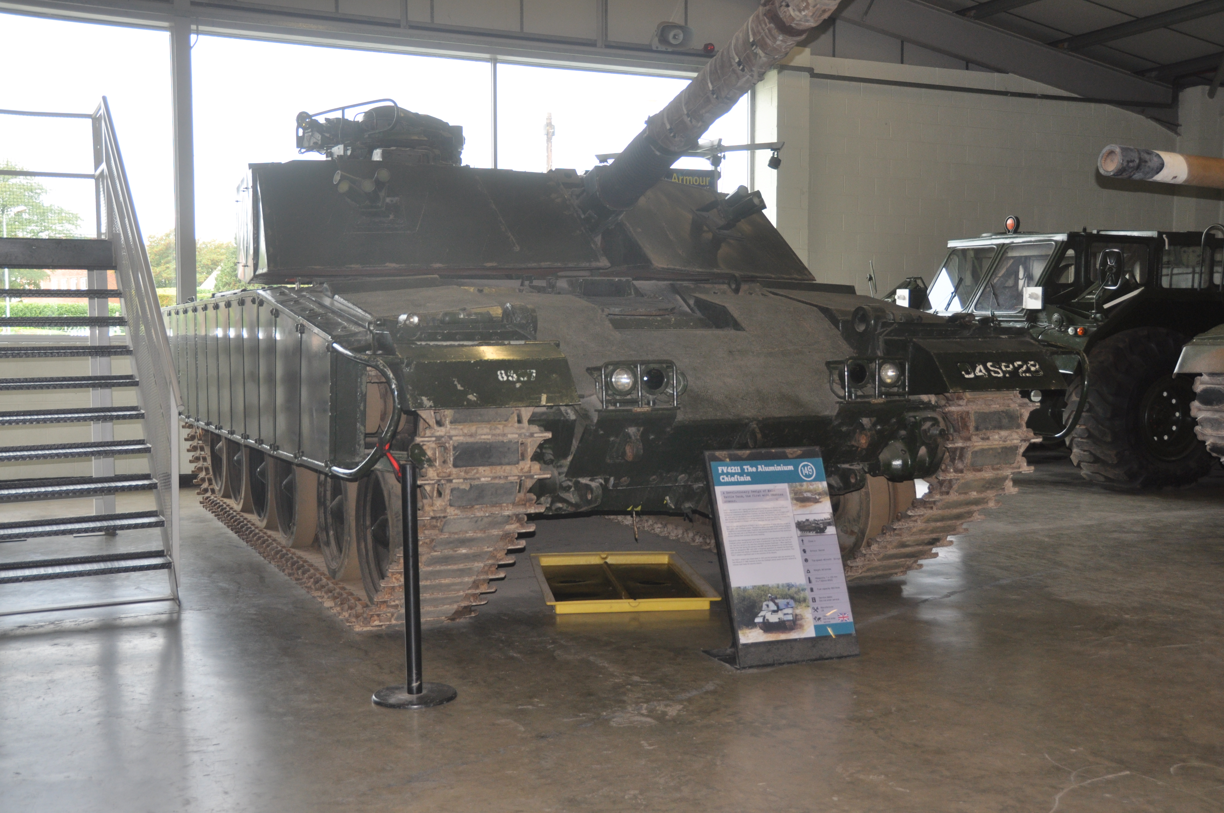 The Tank Museum